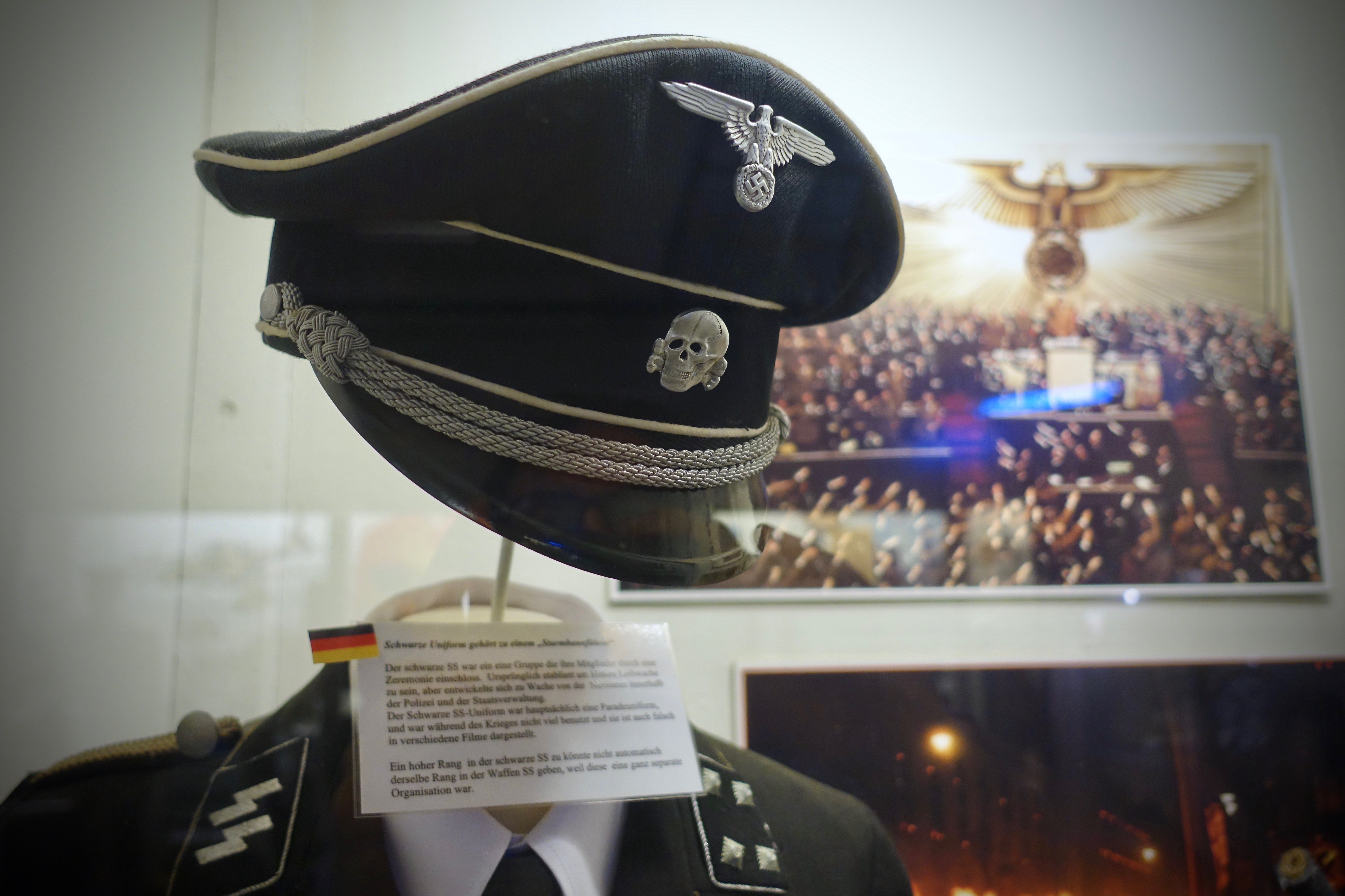 Peaked cap (Schirmmütze), with SS' skull emblem (Totenkopf) and SS Hoheitszeichen (SS style Parteiadler), as part of the black parade uniform of a SS-Sturmbannführer in the Allgemeine SS of the German Nazi Party. . Schutzstaffel (SS) was the major paramilitary organization under Adolf Hitler and the Nazi Party (NSDAP) in Nazi Germany. The high-fronted visor cap is decorated with SS' versions of the Hoheitszeichen/Hoheitsadler insignia (German Imperial and Nazi Party eagle) and the Totenkopf badge (the skull and crossbones emblem adopted from the Totenkopfhusaren, the 5th Hussar/Life-Guard Cavalry Regiment of Prussia). Read more about the uniforms and insignia of the Schutzstaffel on Wikipedia in English. Photo taken on May 8, 2019 at the Lofoten War Memorial Museum (Lofoten Krigsminnemuseum) in Svolvær, Norway. The museum exhibits uniforms, militaria, smaller items, memorabilia, etc. related to World War II and the German occupation of Norway 1940 – 1945. SS general's visor capNorwegian produced cap deliberately sloppy madeOther peaked caps of SS and Waffen-SS on display at the Lofoten War Memorial Museum.